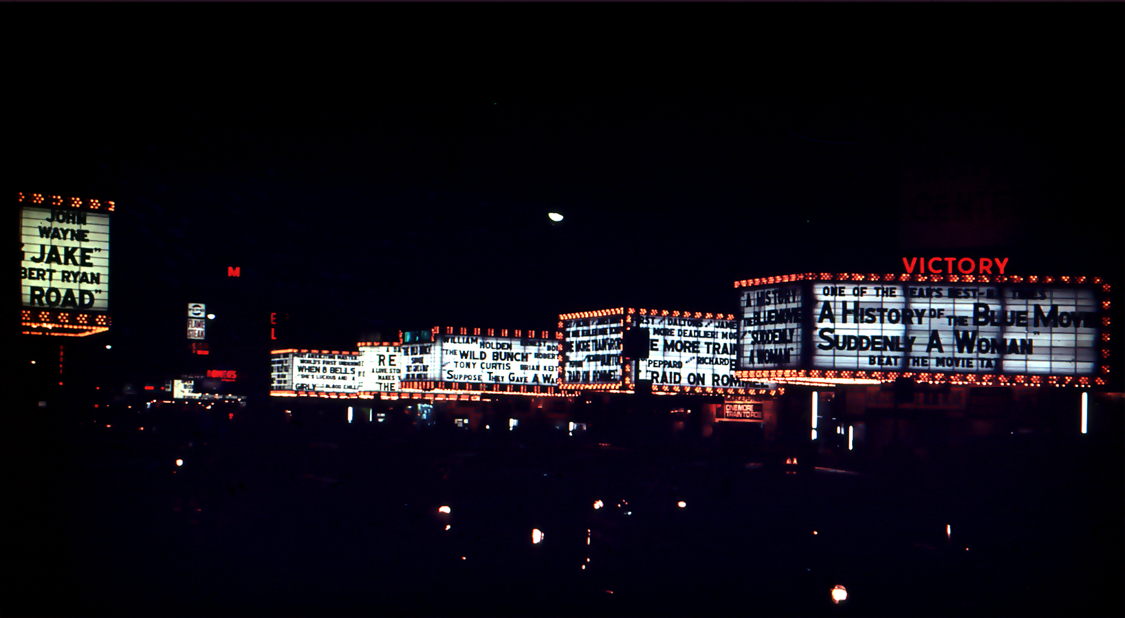 Broadway in the night